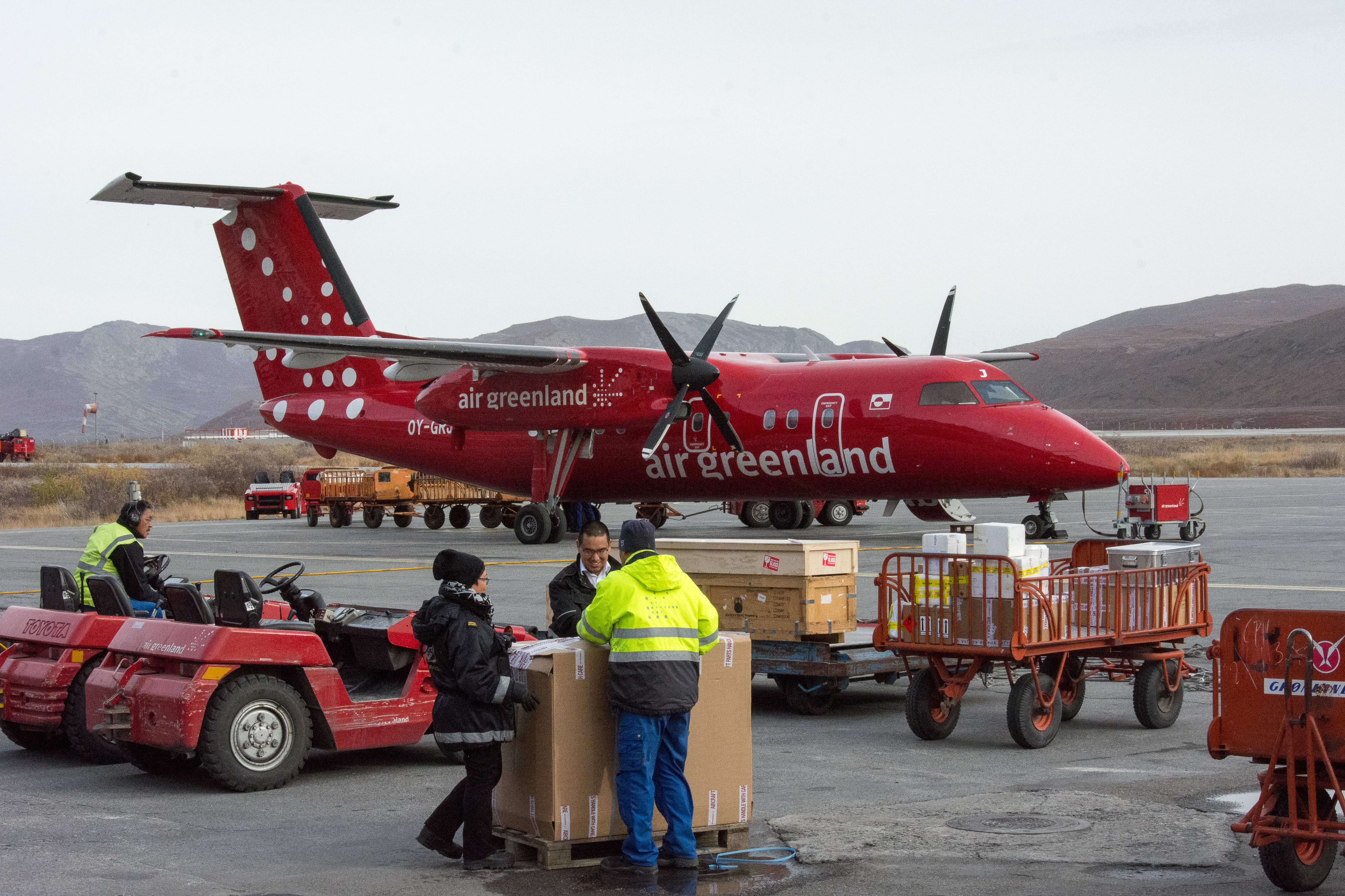 Air Greenland de Havilland Canada/Bombardier Dash 8 Q200 aircraft at KSJ Kangerlussuaq Airport on September 21, 2015.